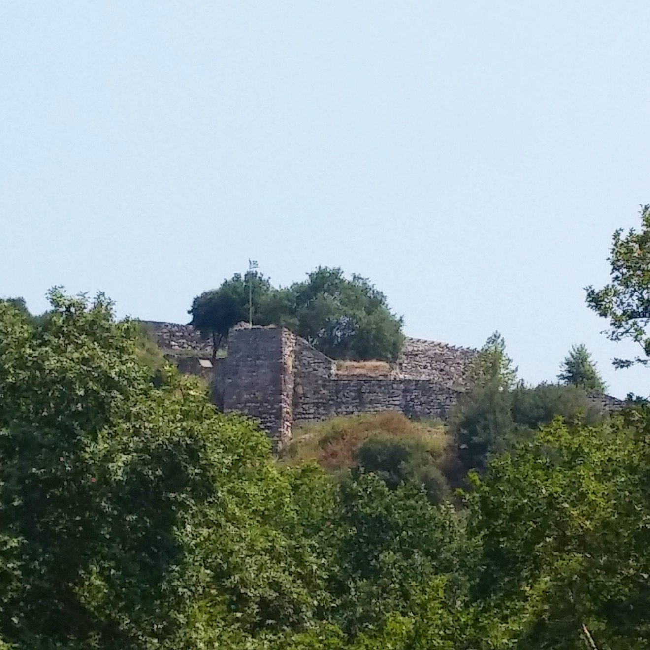 Rentina Castle